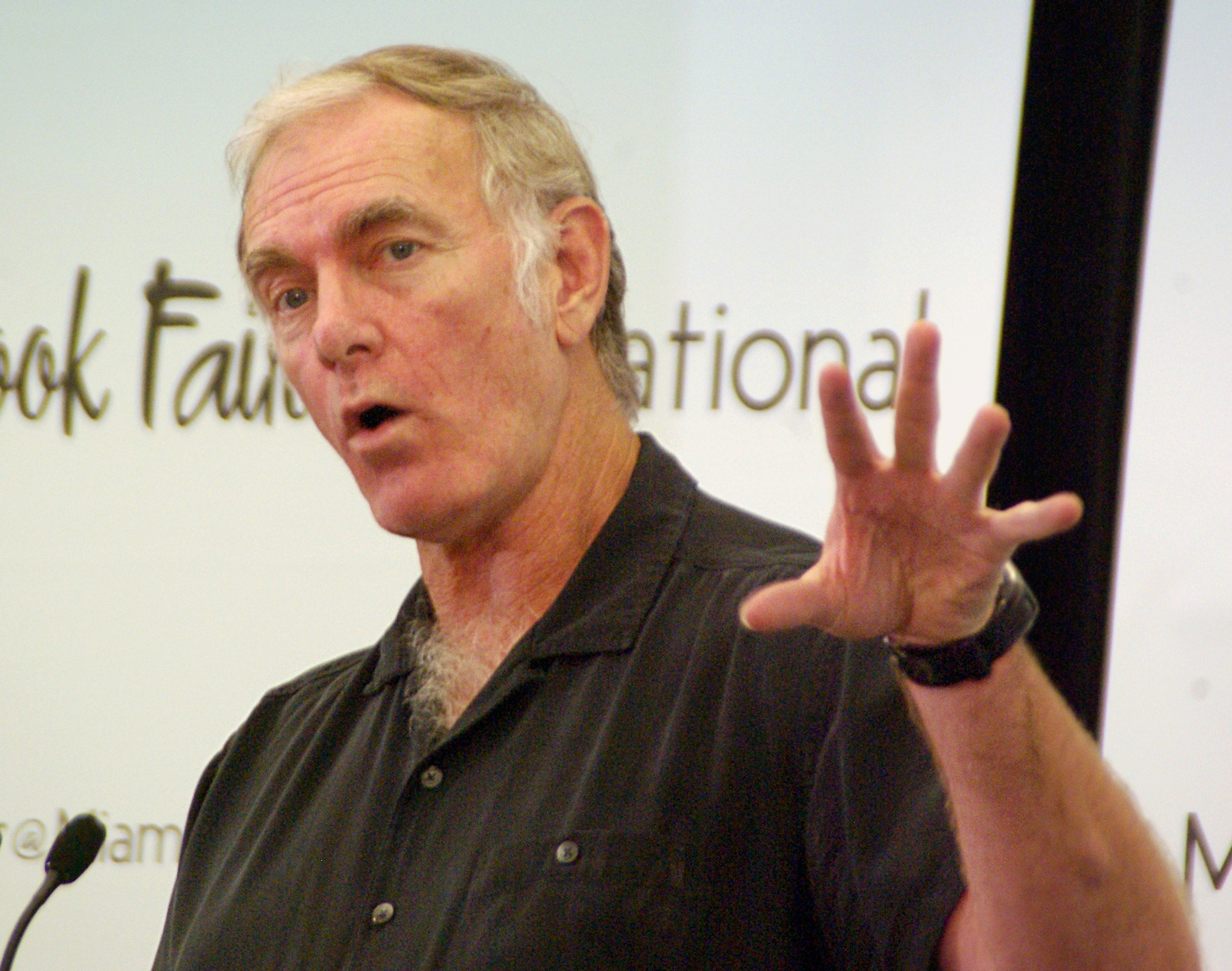 American film director & author John Sayles at the Miami Book Fair International 2011